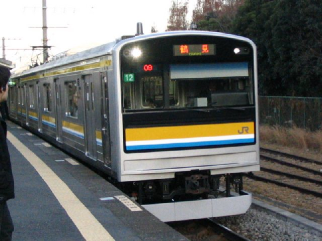 JR East 205-1100 for Tsurumi Line (Taken at Bentenbashi Station)